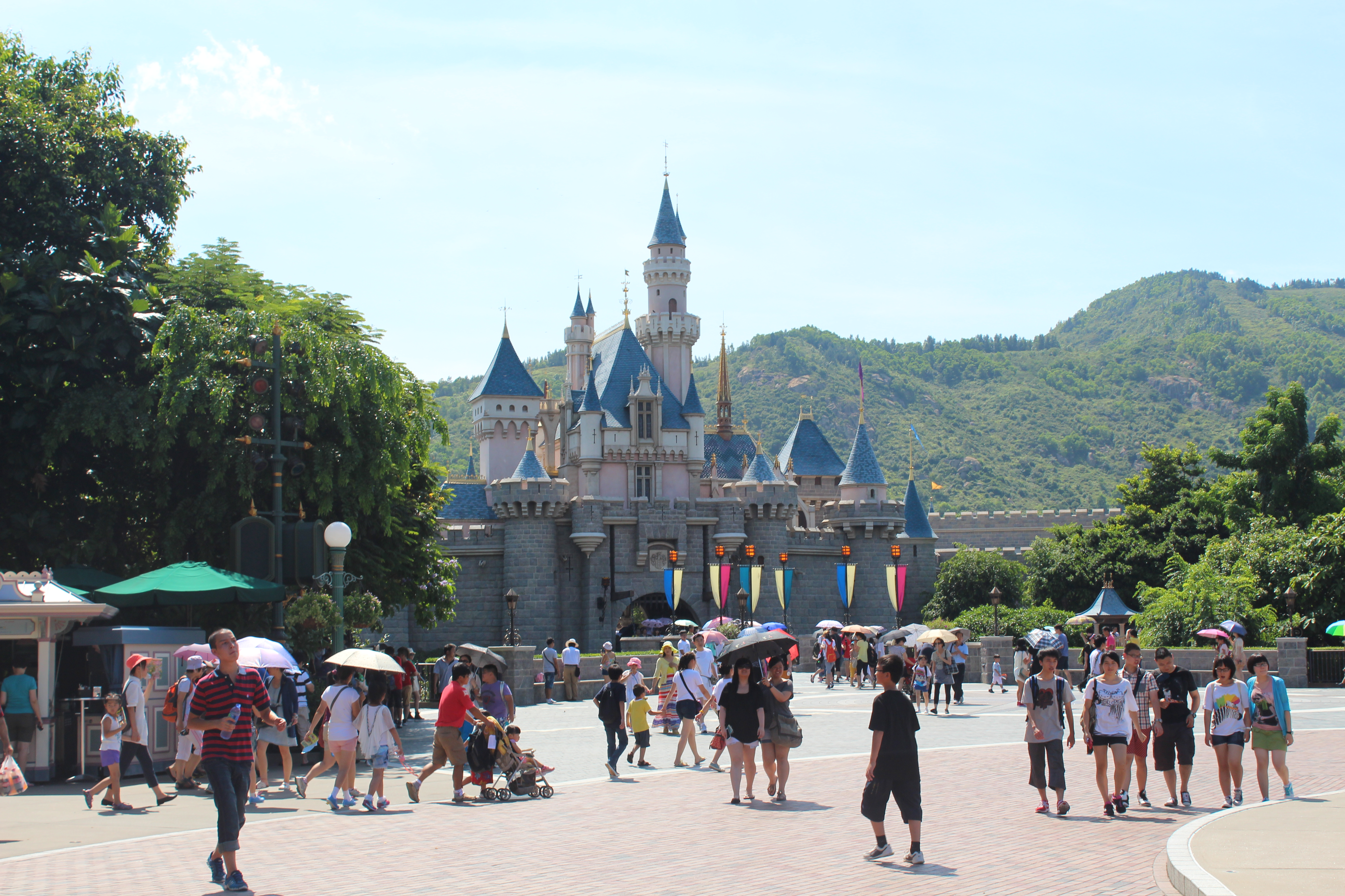 Sleeping Beauty Castle at Hong Kong Disneyland, Hong Kong